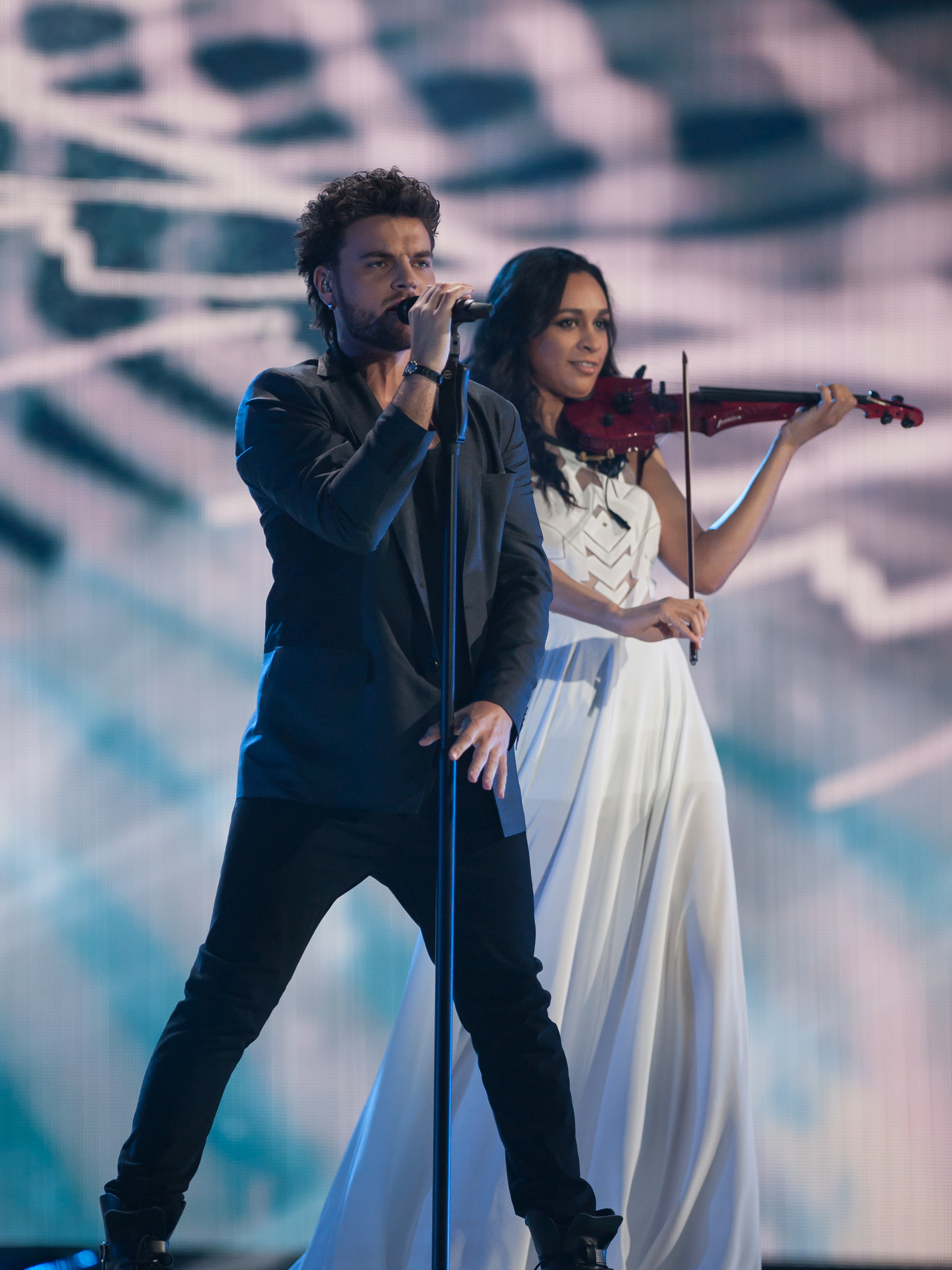 Eurovision Song Contest Vienna 2015: Uzari & Maimuna, Belarus